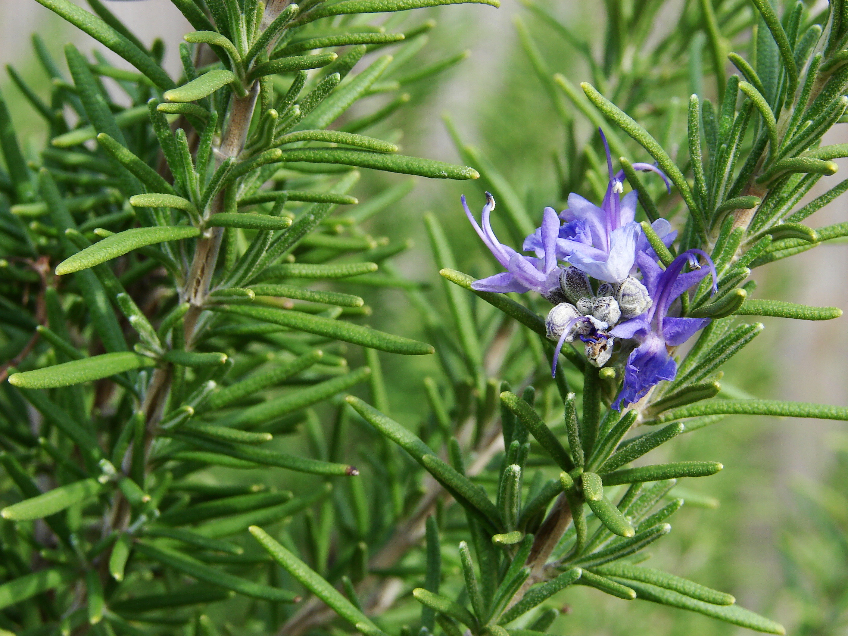 Rosemary (Rosmarinus officinalis) leaves and blossom in North Texas.